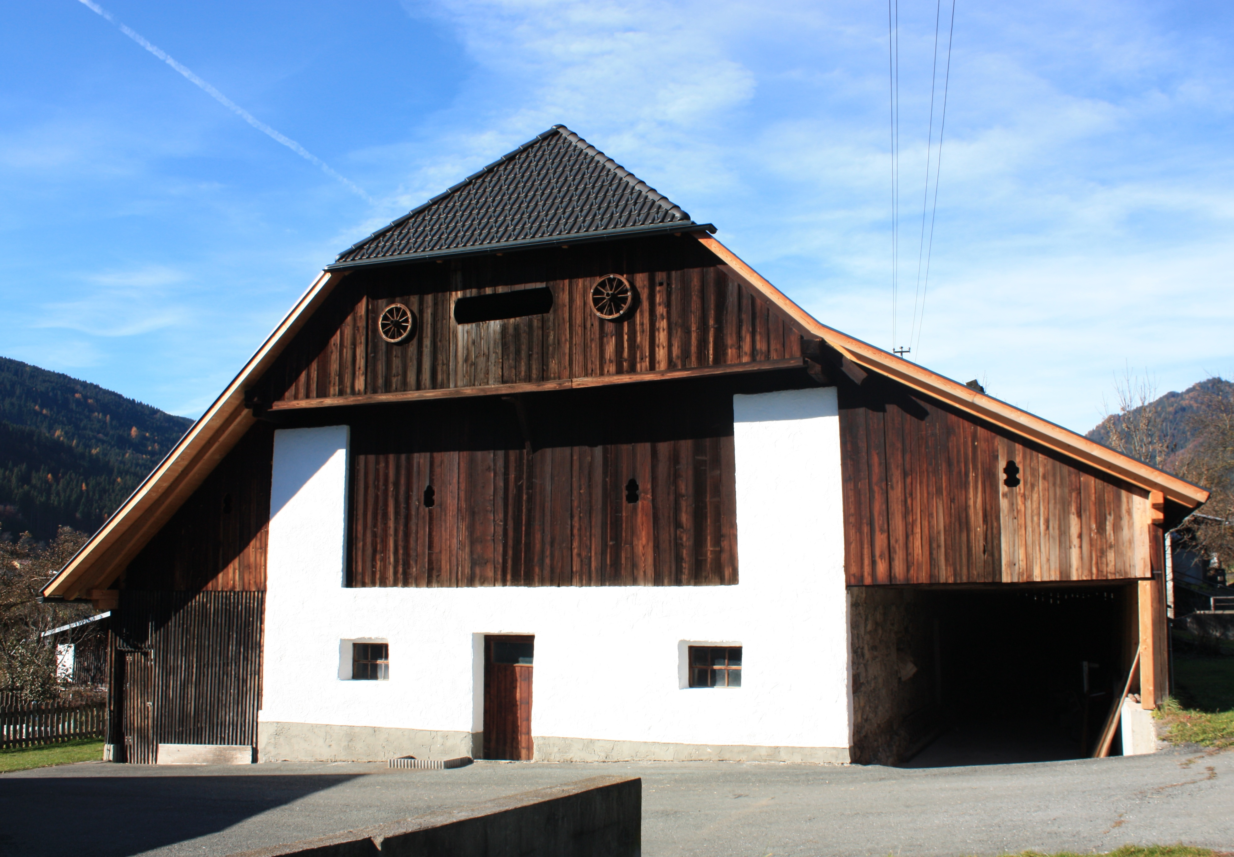 Farm building in Jadersdorf in the community Gitschtal